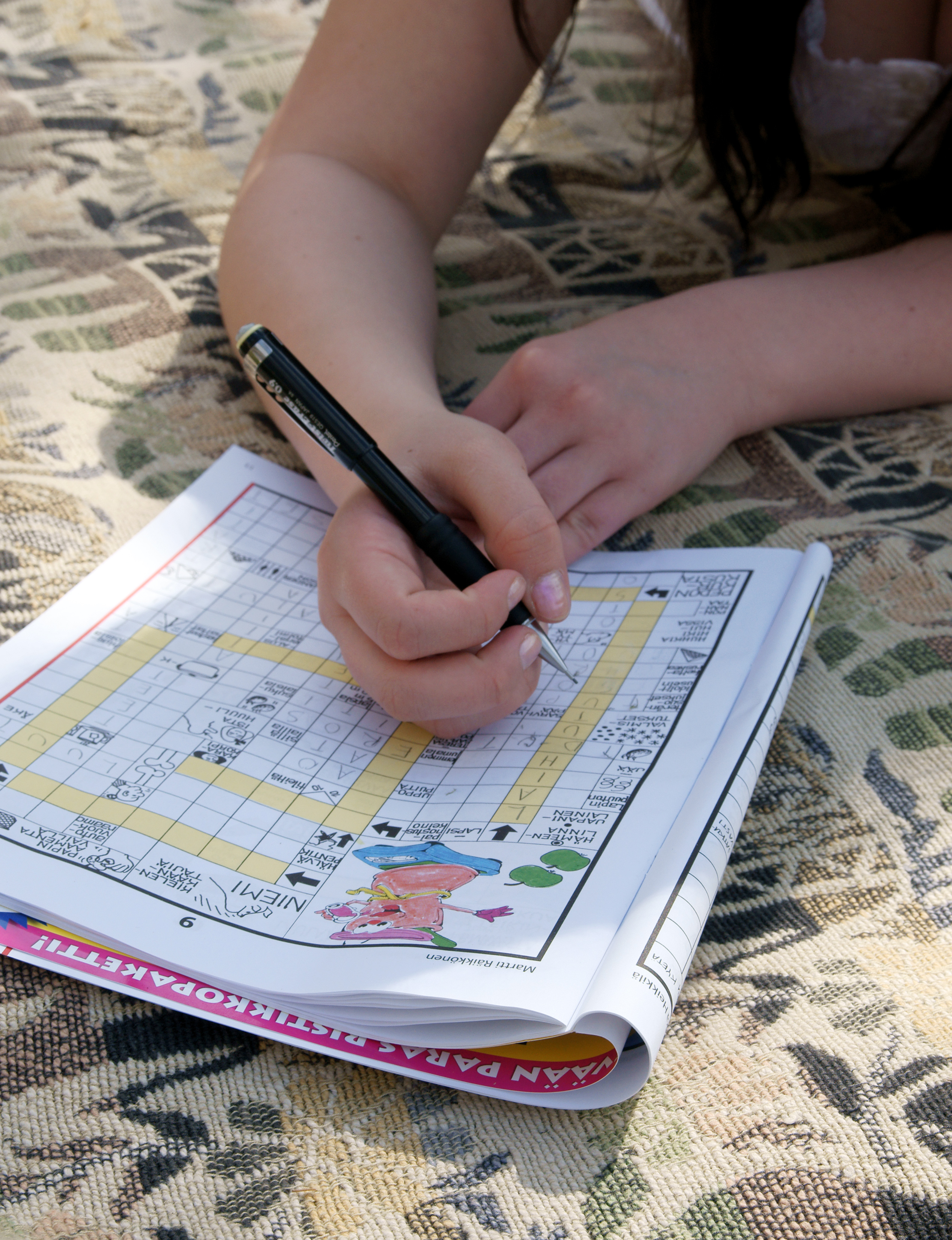 A person making crossword puzzles.